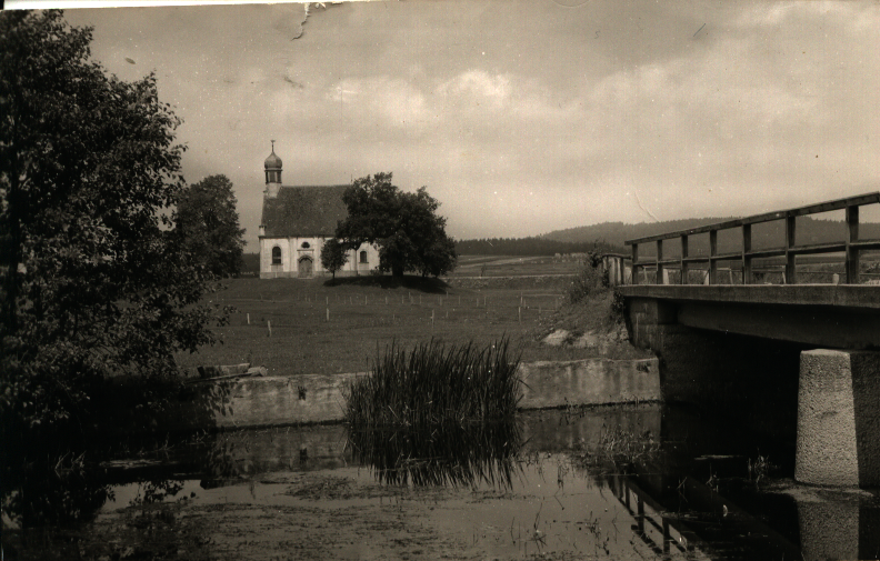 From the German wikipedia project. Panorama Wilburgstetten // Foto privat // Archiv Helms// public domain. Konvertiertes BMP von Benutzer:GregorHelms